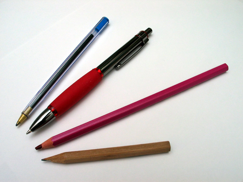 Different types of pens